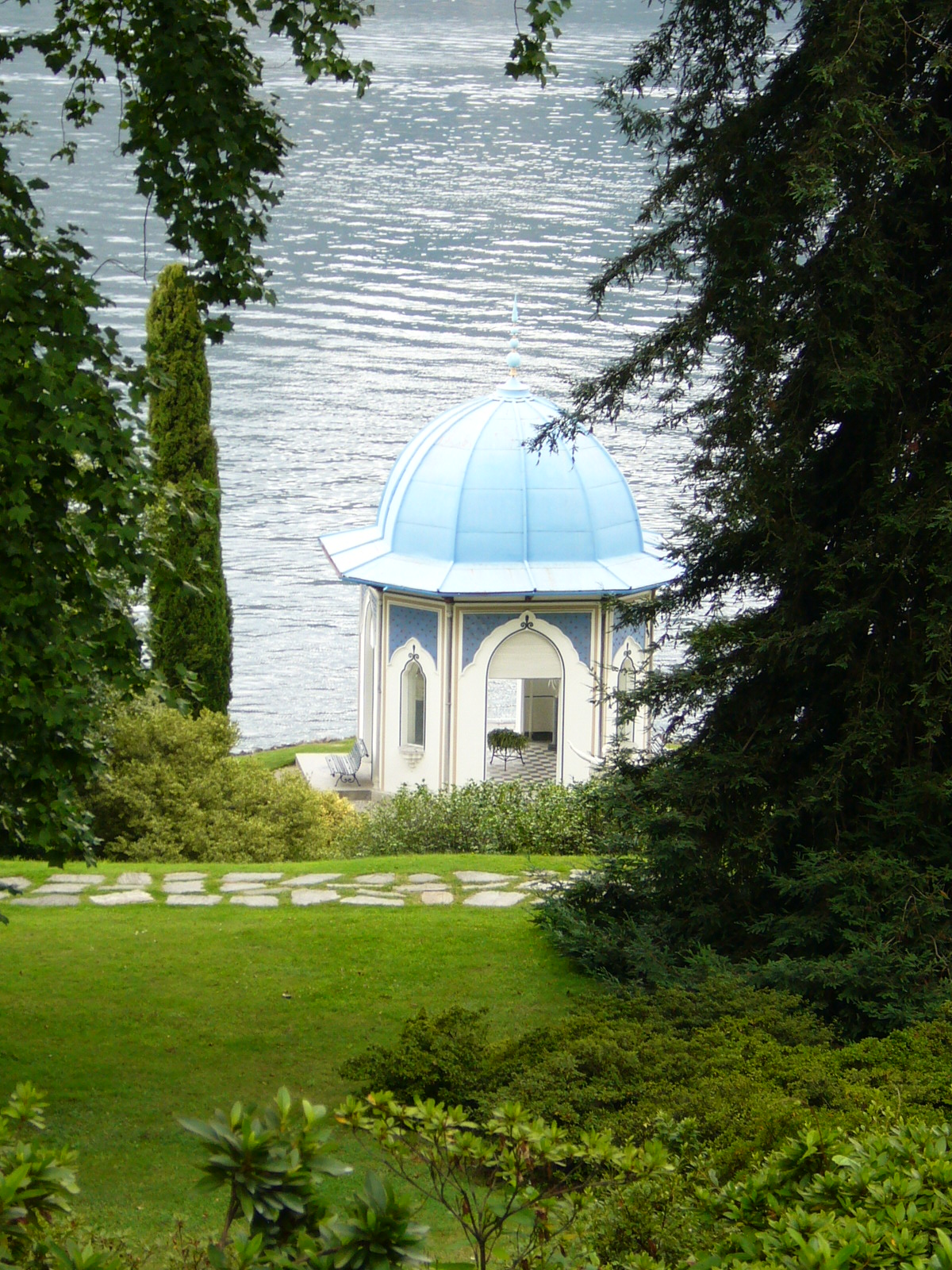 Villa Melzi in Bellagio, Italy. Picture taken by Susanne Acht, August 13, 2006.